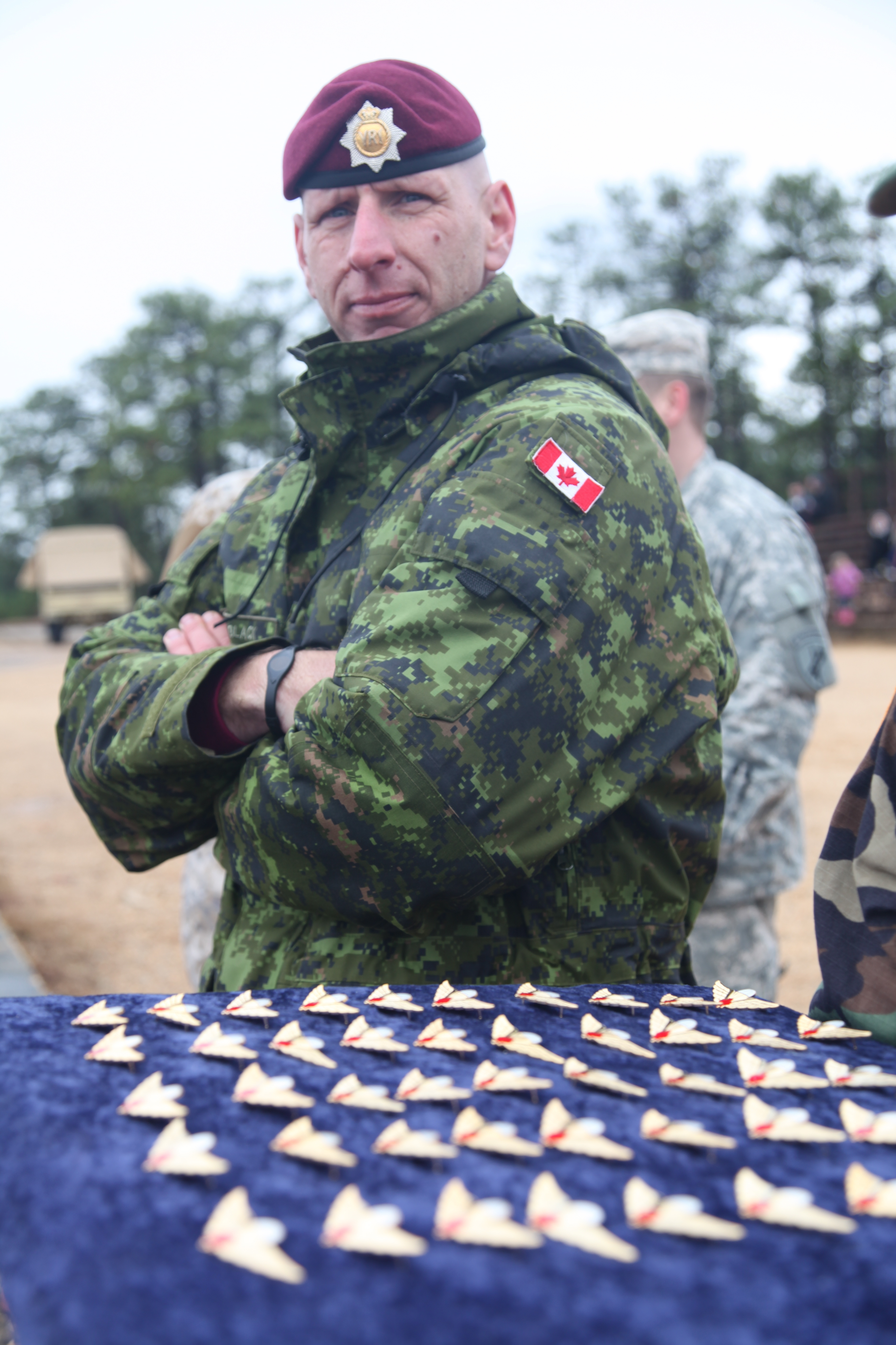 A jumpmaster from Canada stands next to a tray of Canadian jump wings before he presents them to U.S. Army paratroopers during the 16th Annual Randy Oler Operation Toy Drop, Dec. 7, 2013, at Sicily Drop Zone, Fort Bragg, N.C. Operation Toy Drop is the largest combined airborne operation in the world, with nine allied nations participating. These Canadian jump wings were earned after jumping under the command of an Canadian jumpmaster. (U.S. Army photo by Sgt. Austin Berner/Released)